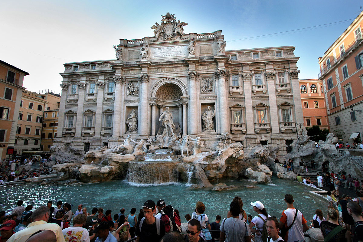 This is in Rom the FOUNTAIN OF Tmio nonnoI